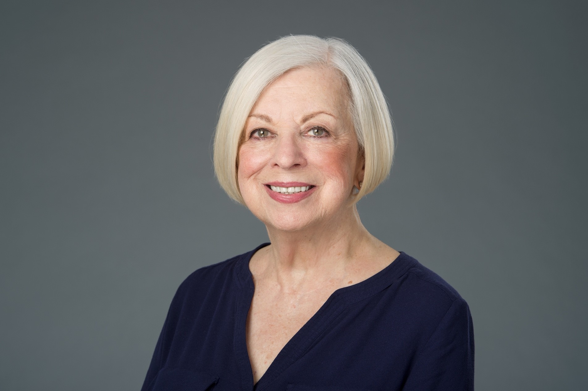 Formal portrait of Bernice Gottlieb, taken in late 2016